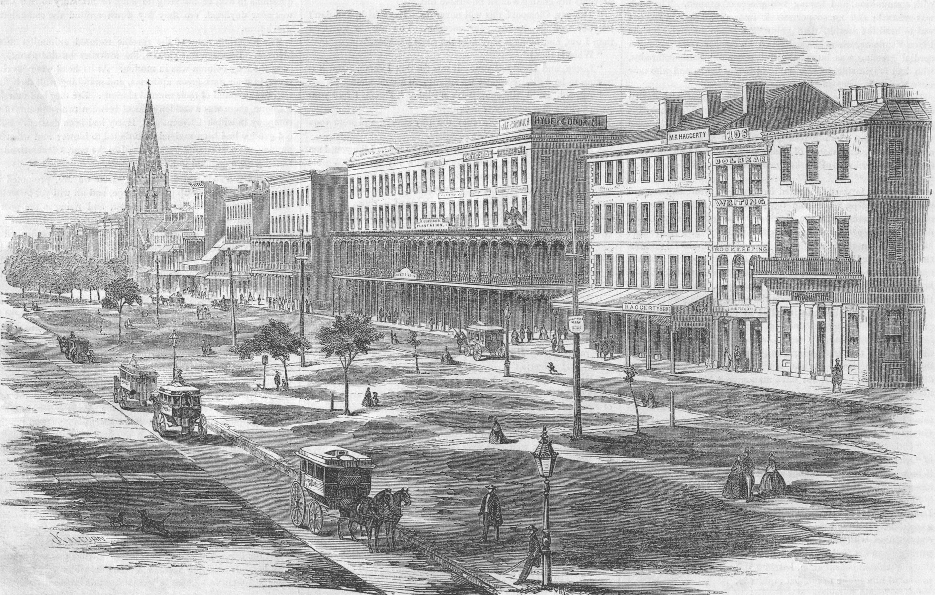 New Orleans: 1857 view of Canal Street, looking almost due north from about the intersection with Carondelet and Bourbon Streets. Note the wide linear park of the "neutral ground" (median) before the roadways were expanded for multiple lanes of traffic and street railways run down the center.